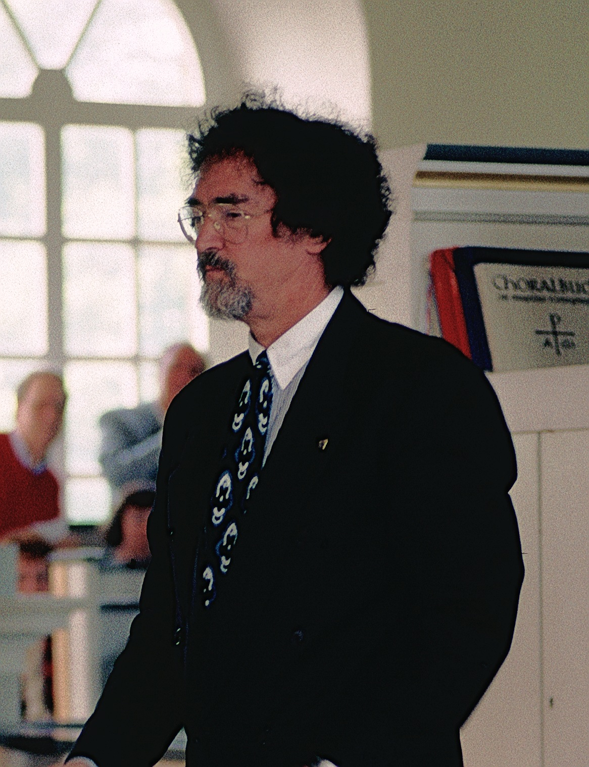 Edward H. Tarr in Hamburg, St. Gertrud-Church